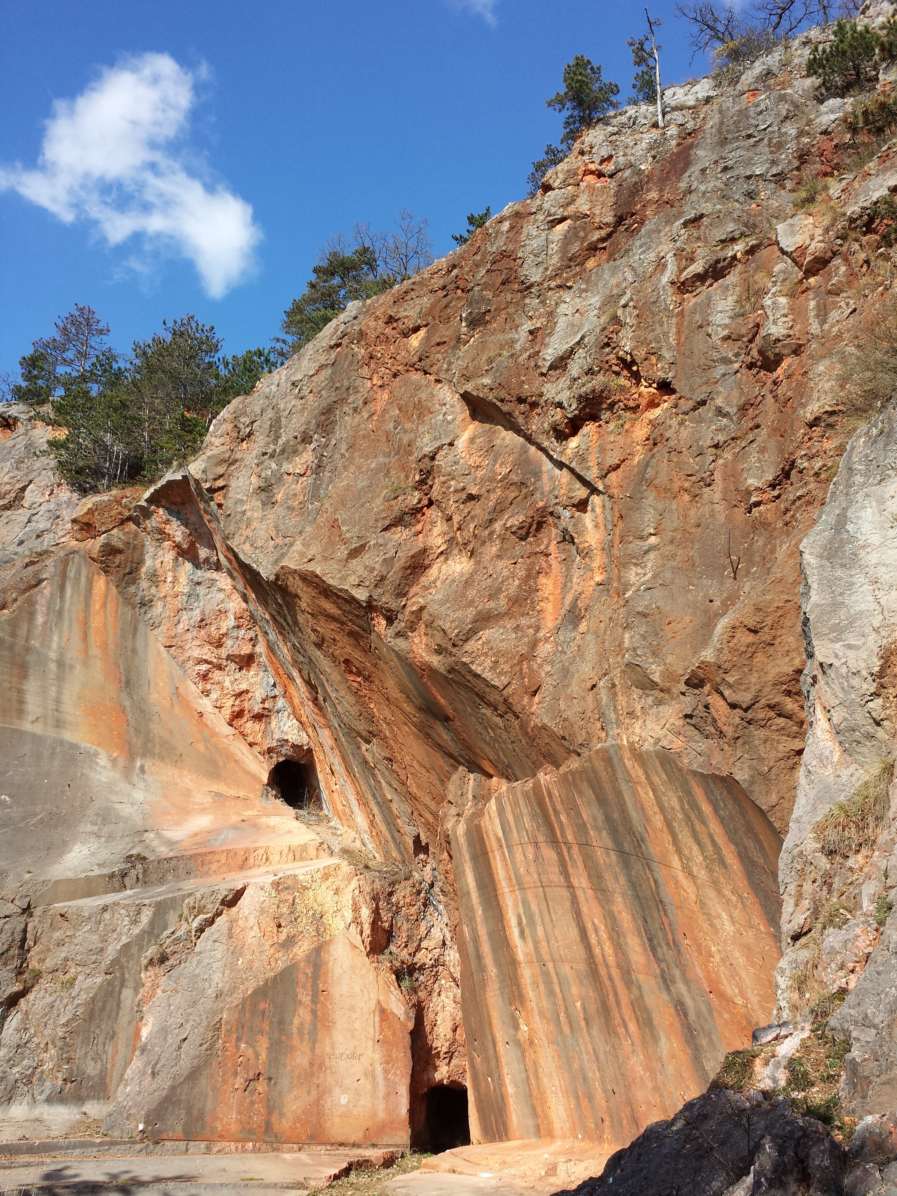 Marble stone pit on Engelsberg, Winzendorf, district Wiener Neustadt-Land, Lower Austria - ca. 500 m a.s.l.